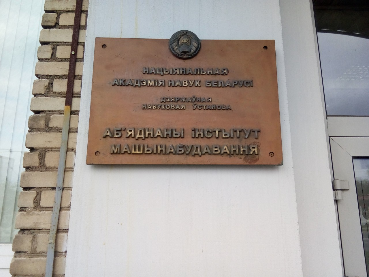 Plaque on the Joint Institute of Mechanical Engineering of the National Academy of Sciences of Belarus (12 Akademičnaja Street, Minsk; 20th of April, 2019)